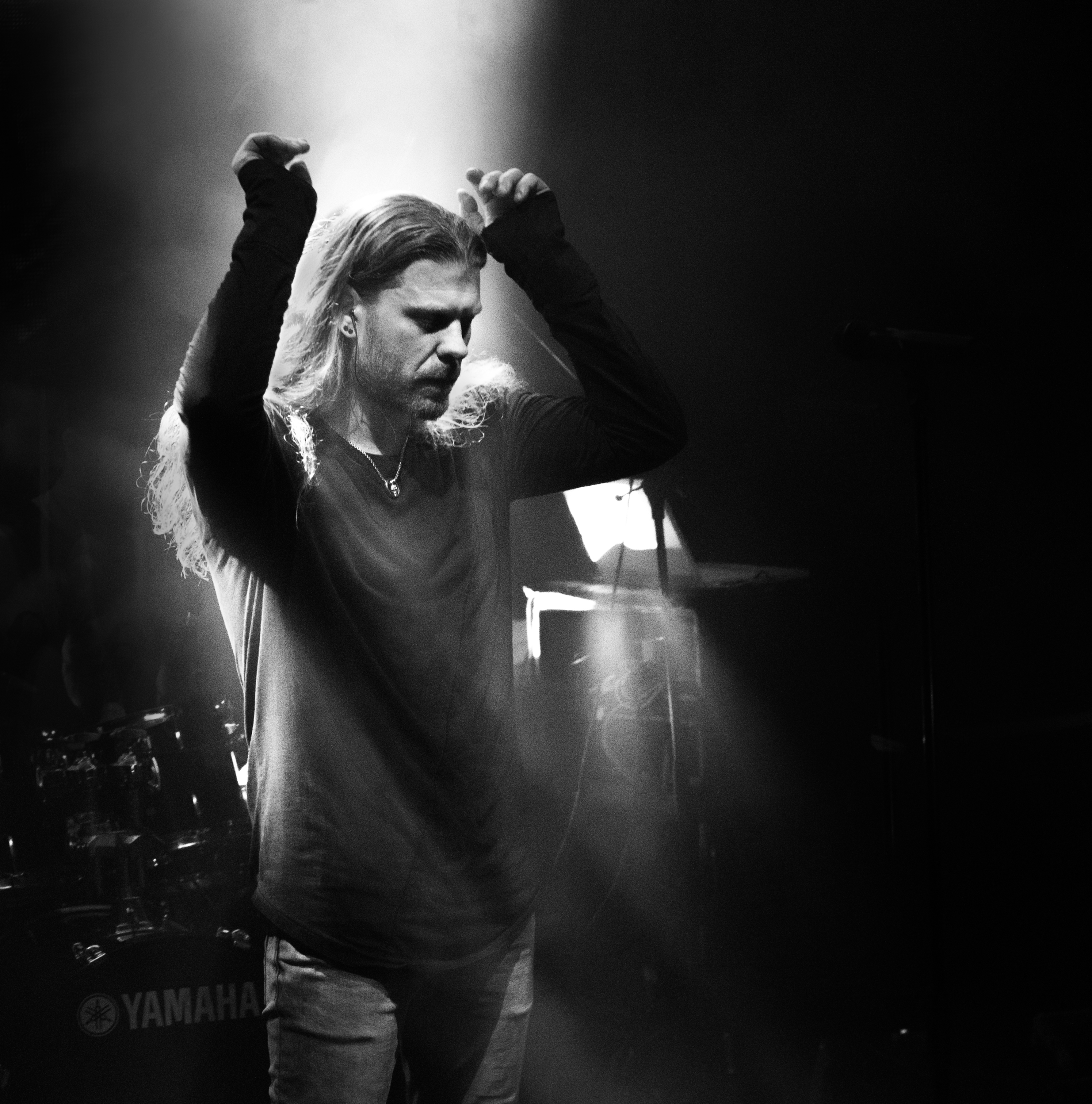 Diary of Dreams Russian Tour 2016. Yekaterinburg, Dom Pechati club. Photo by Ekaterina Yakyamseva.